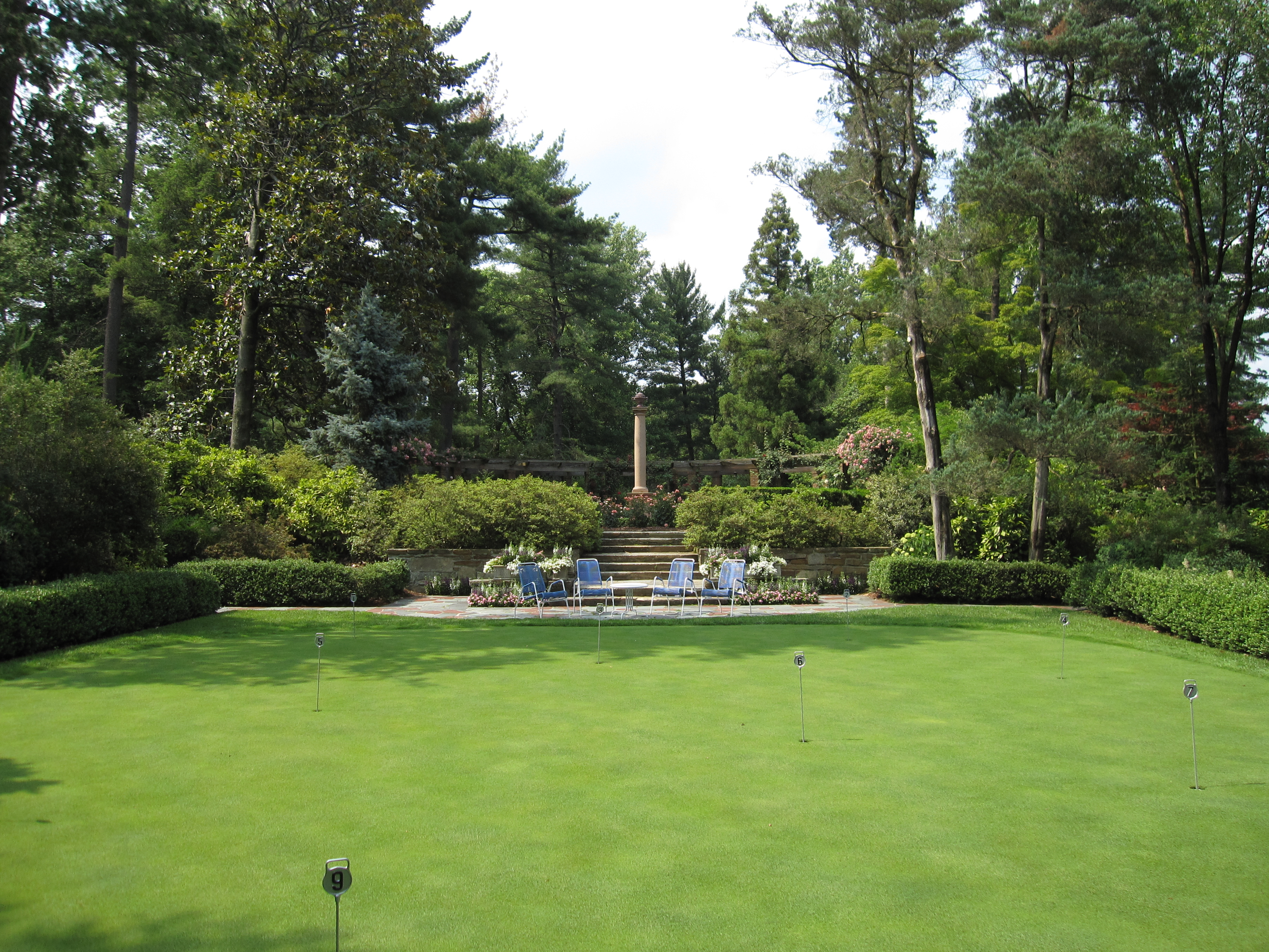 Hillwood Estate, Museum & Gardens in Washington, D.C.